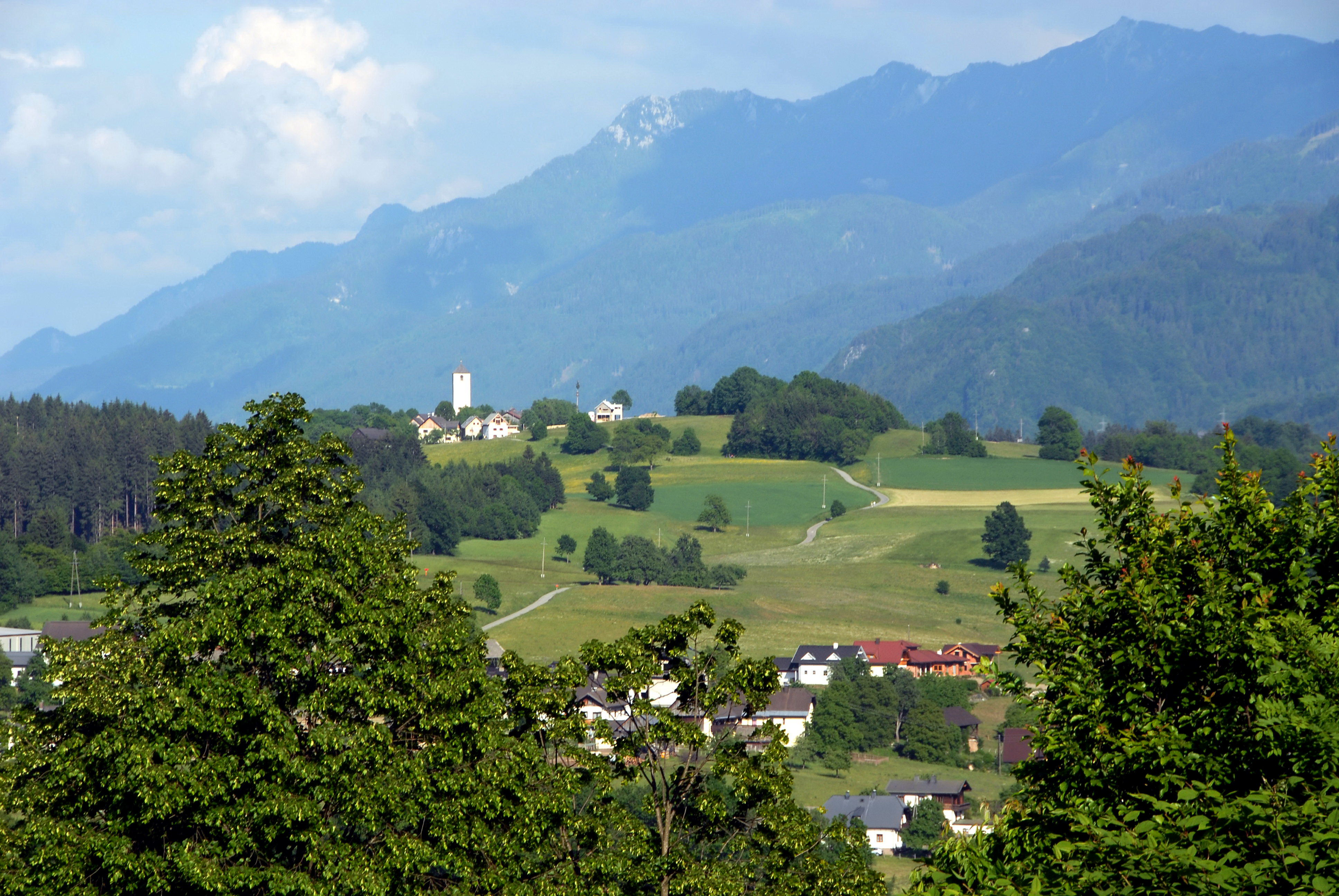 View of Hohenthurn with the subsidiary church Saint Cyriacus, municipality Hohenthurn, district Villach Land, Carinthia, Austria, EU